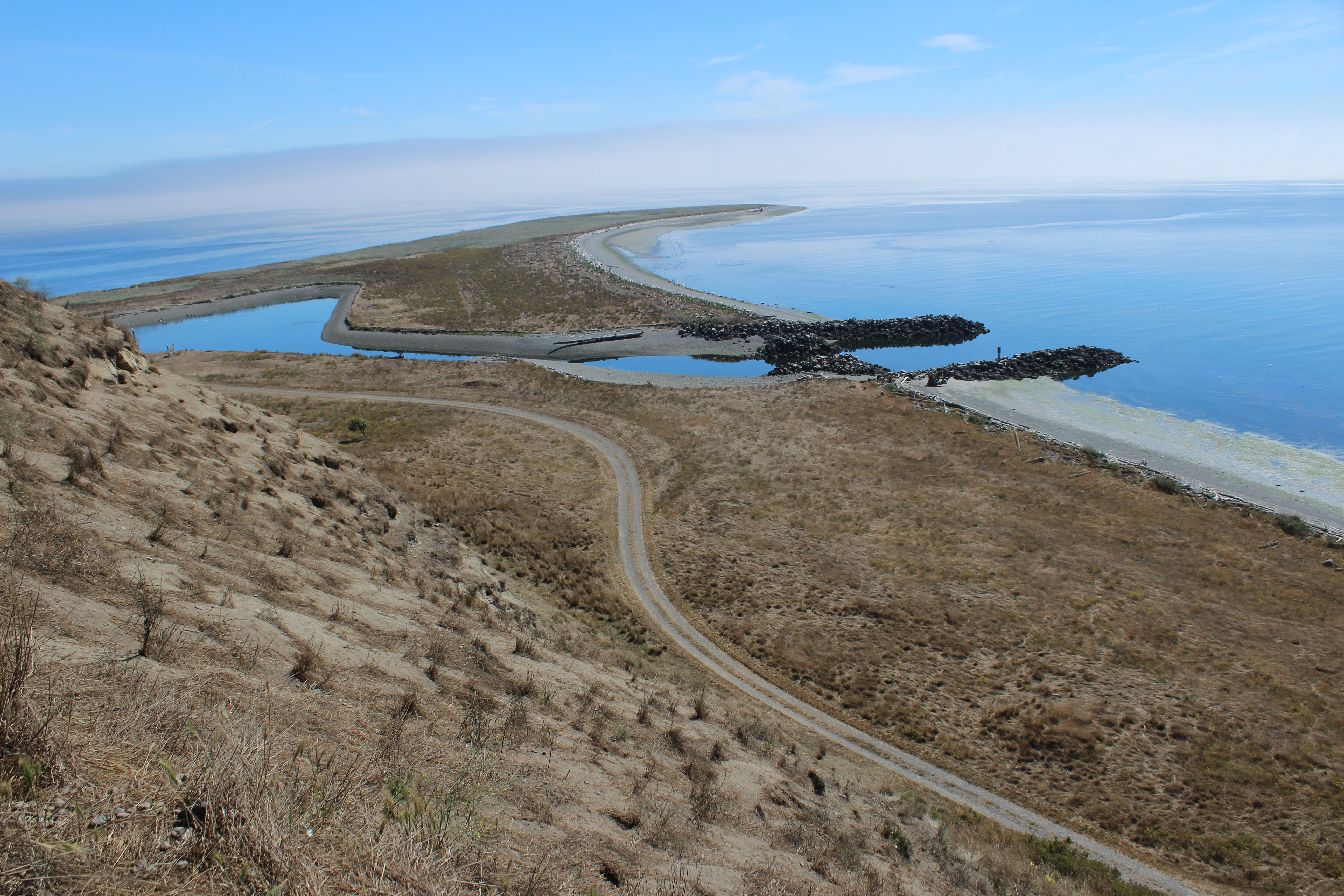 Rhinoceros auklets like to nest about 3 feet apart but sometimes have burrows more densely packed together. Look at the view! Photo credit: Roberta Swift/ USFWS